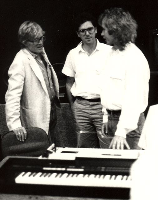 Leon Milo at the Sundance Institute Composer's Lab in 1987. From left to right: Actor Robert Redford, Leon Milo, Peter Kaye.